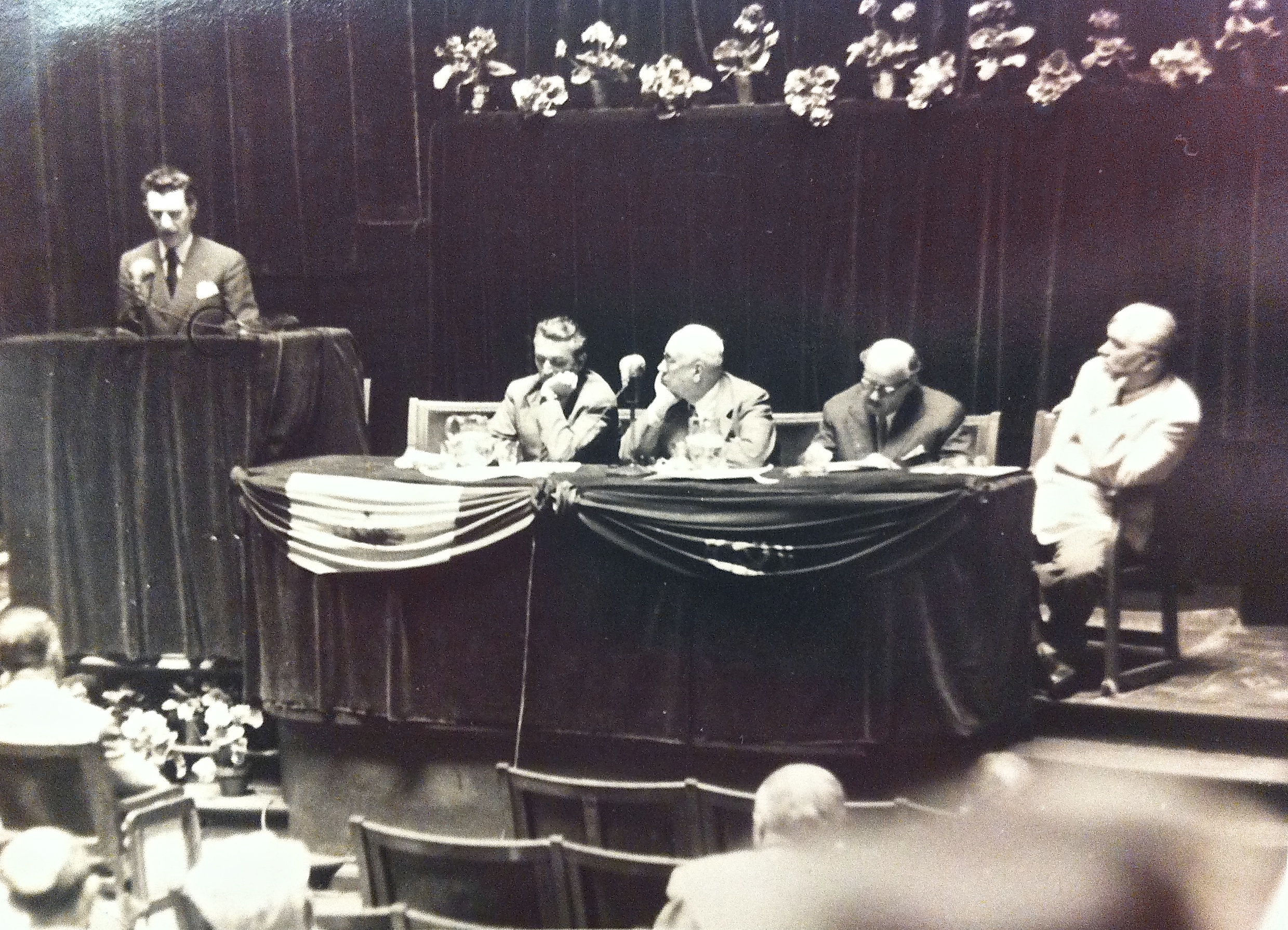 This is a picture taken during an Ophthalmology Congress in Bucharest, Romania in the late 1950s. {cc-by-sa-3.0